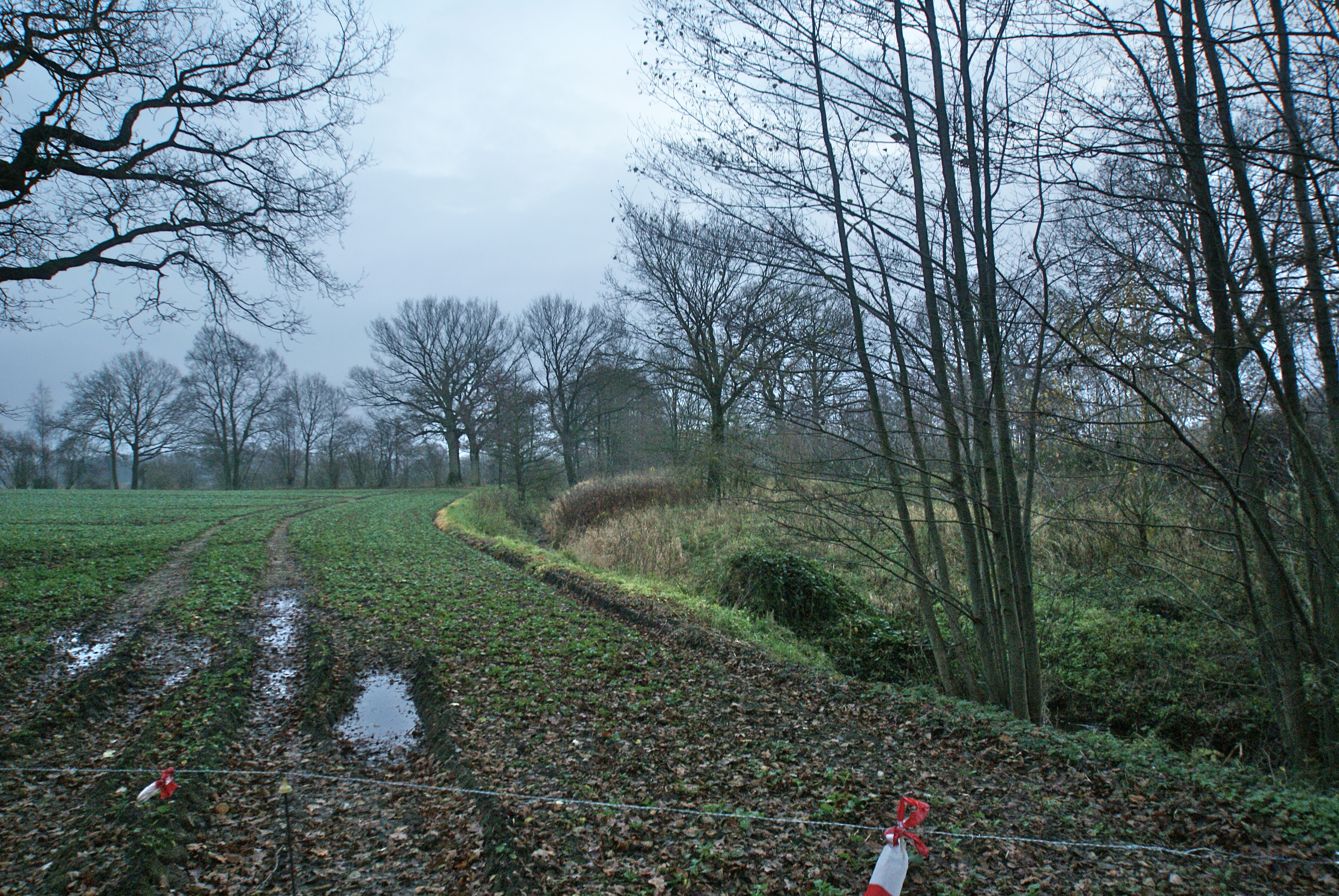 Henstedt-Ulzburg (Wohld), Germany: The valley of the river Höllenbek in Wohld